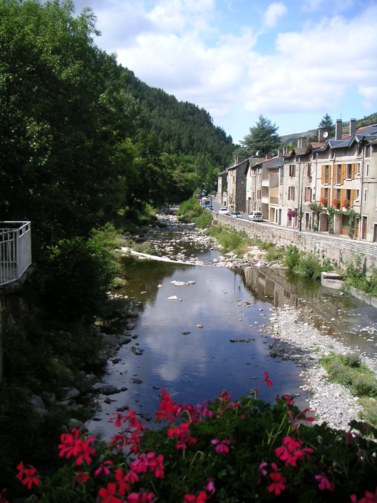 River Jonte in Meyrueis, Départemet Lozère, France